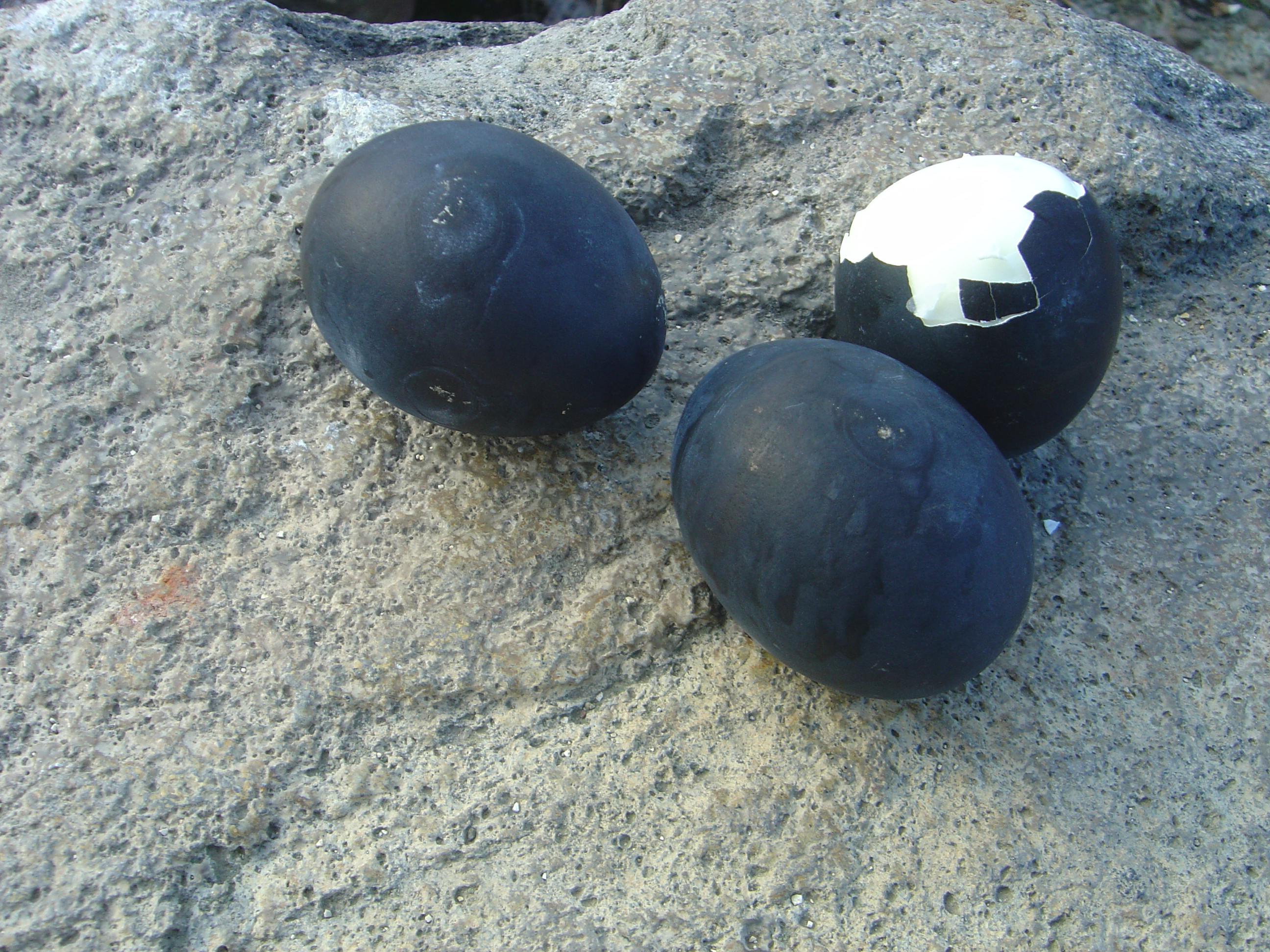 Ōwakudani, Hakone: black eggs (eggs hard-boiled in sulphuric hot spring water)